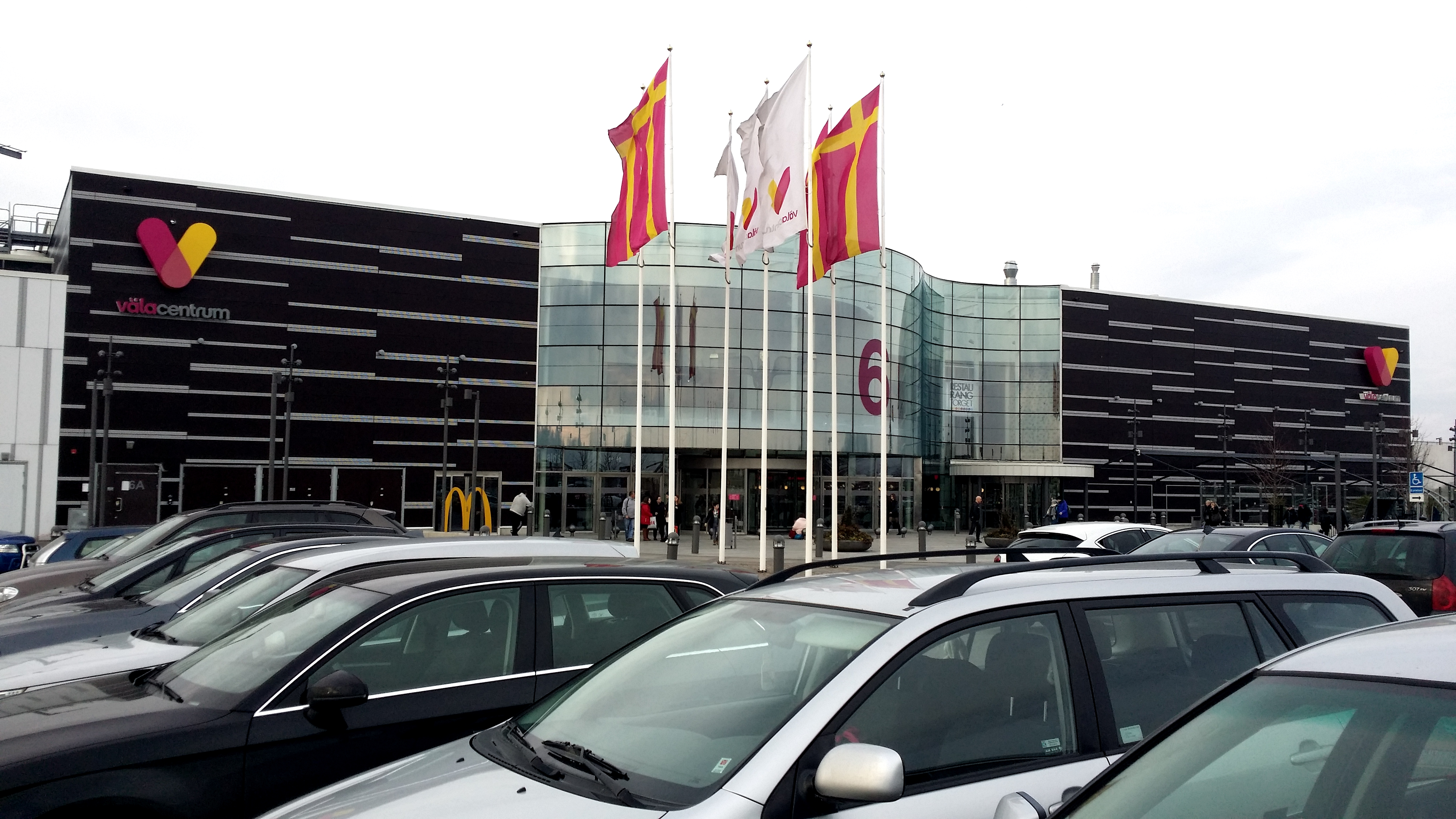 Väla centrum - mall outside Helsingborg.